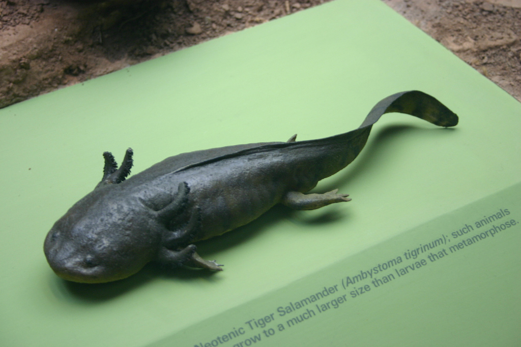 A model of a neotenic tiger salamander Ambystoma tigrinum